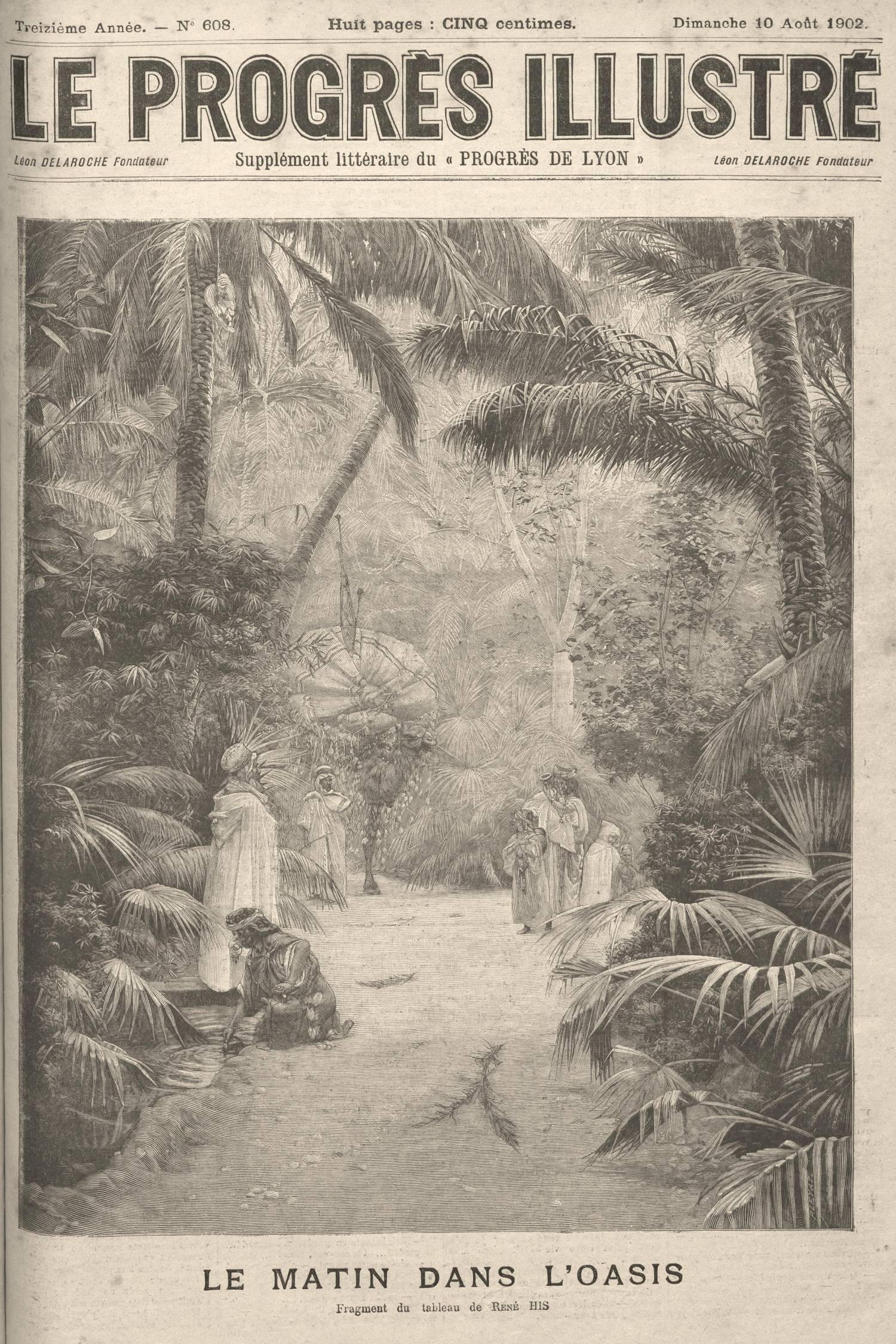 Le Progrès Illustré #608, 10 August 1902. Front page: detail of Matin dans l'Oasis, Tougourth by René His (engraving from painting).